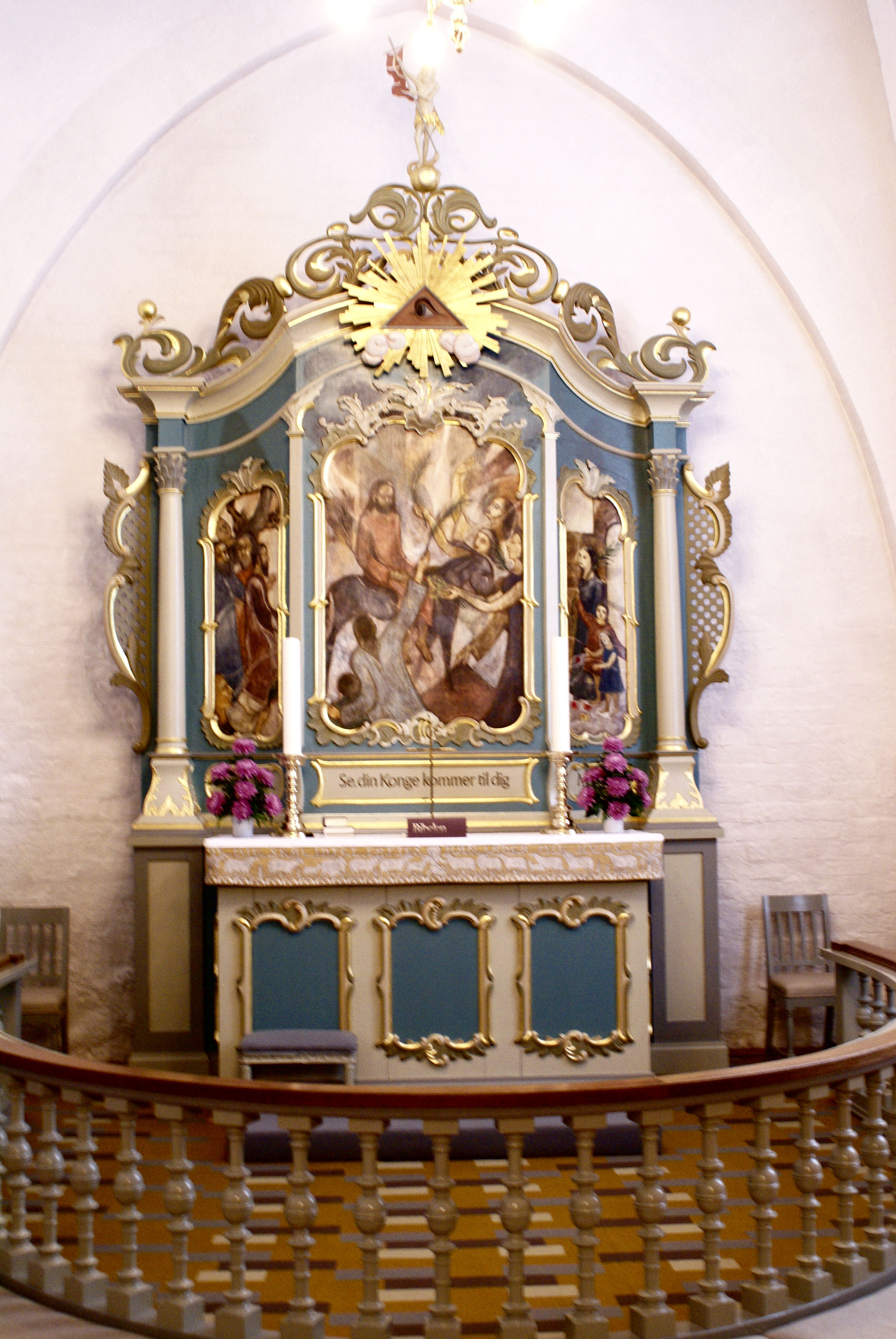 Church of Lemvig, Denmark